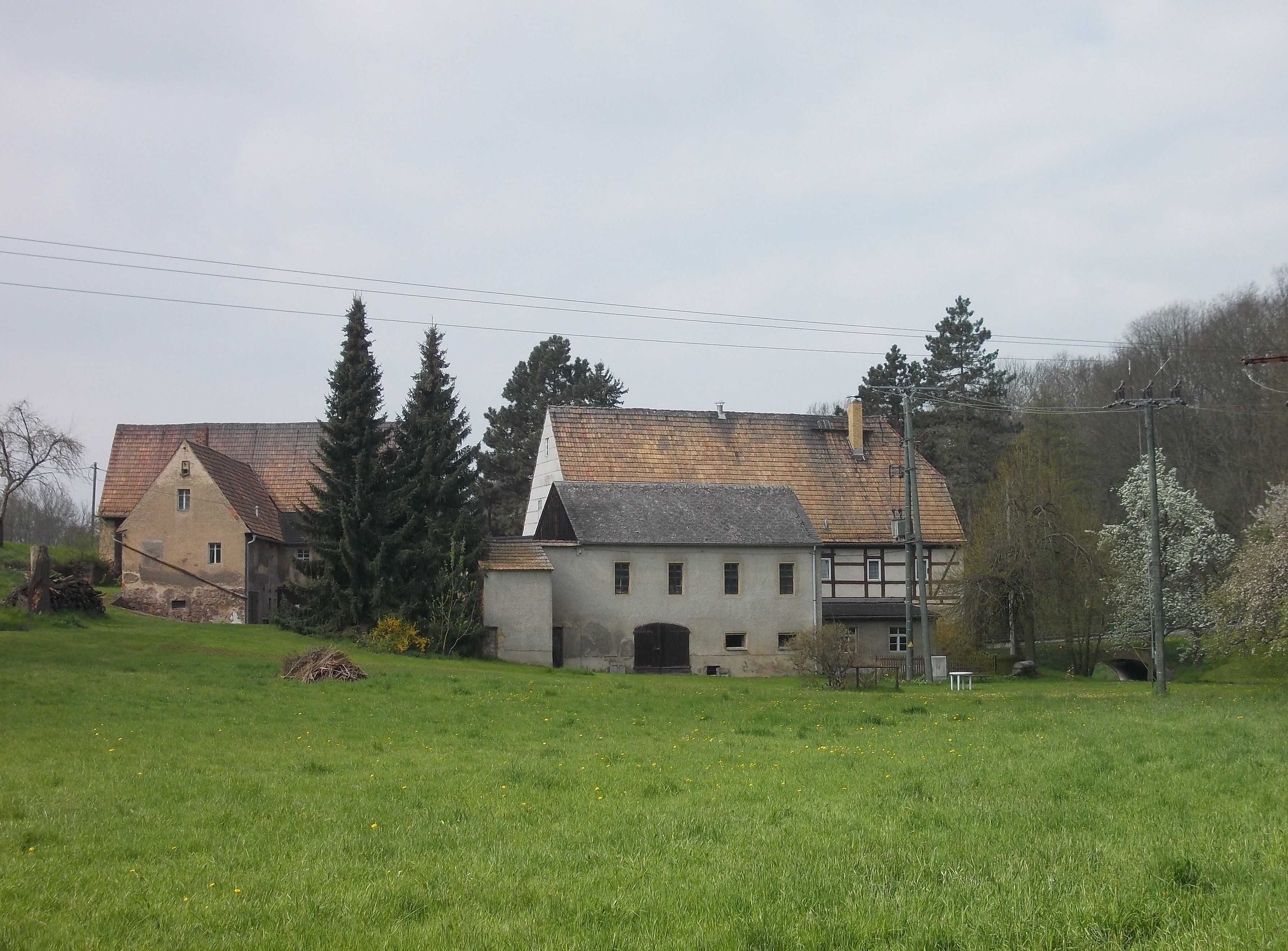 Schanzen Mill near Brösen (Leisnig, Mittelsachsen district, Saxony)